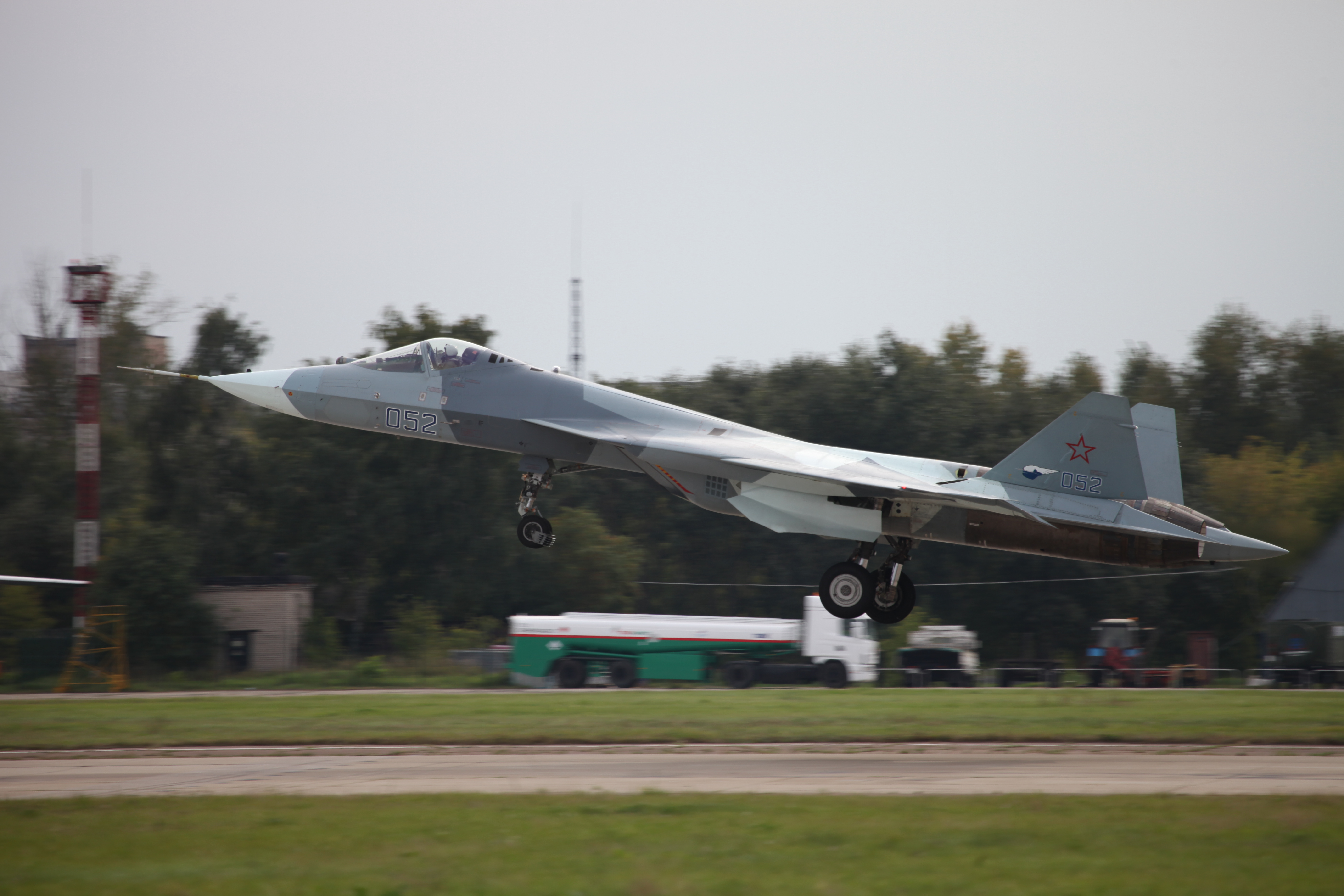 T-50 PAK FA at the MAKS-2013